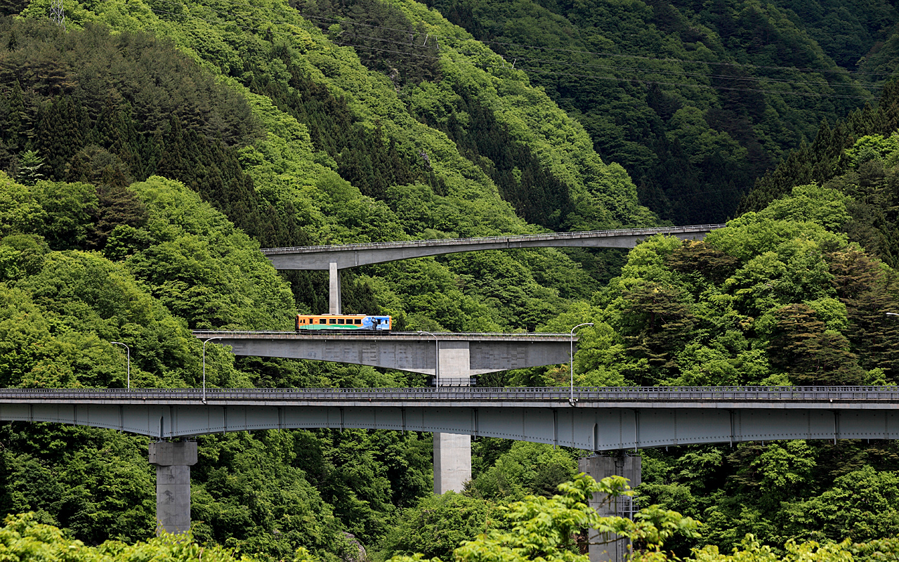 Aizu Railway Type AT-550